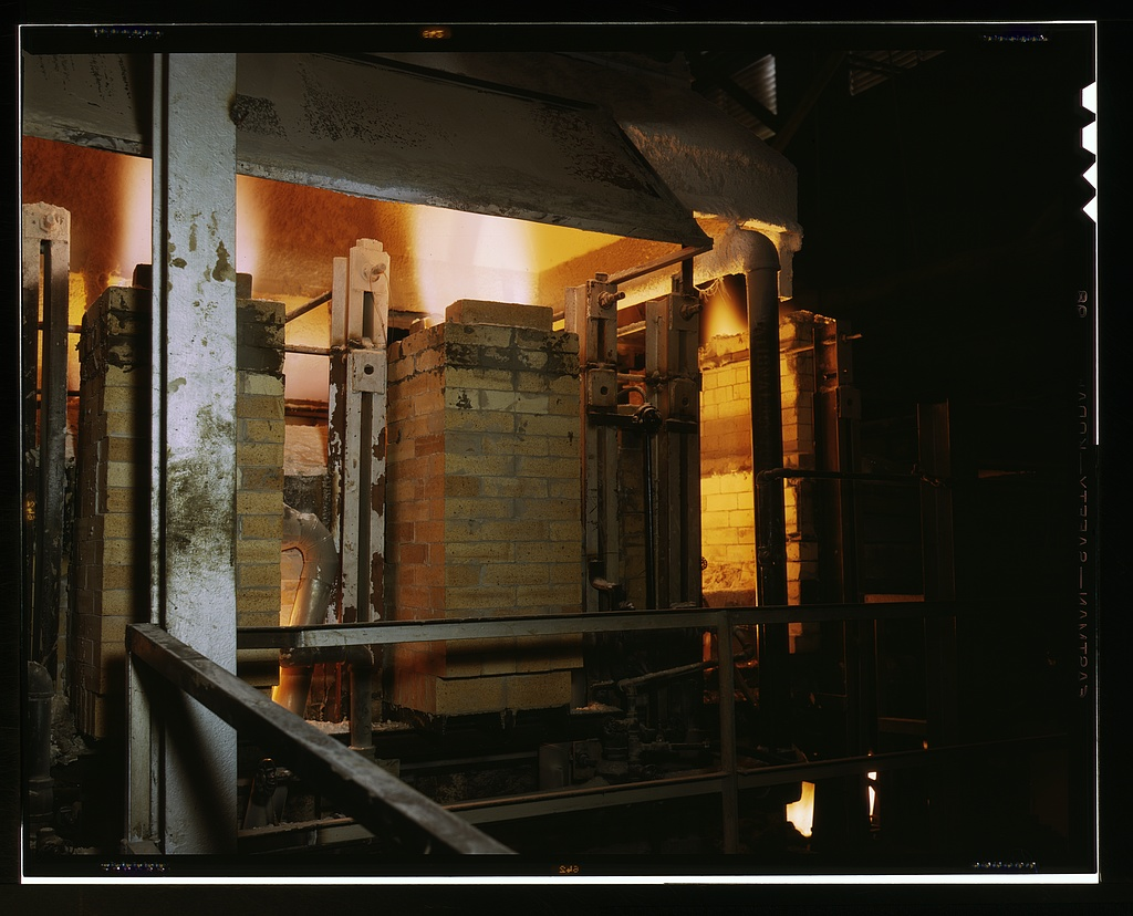 Title: Owens-Corning Fiberglas Corporation, Toledo, Ohio. Side view of a glass furnace melting the carefully compounded batch required for the production of Fiberglas thermal insulation being installed in the hulls of naval vessels now under construction